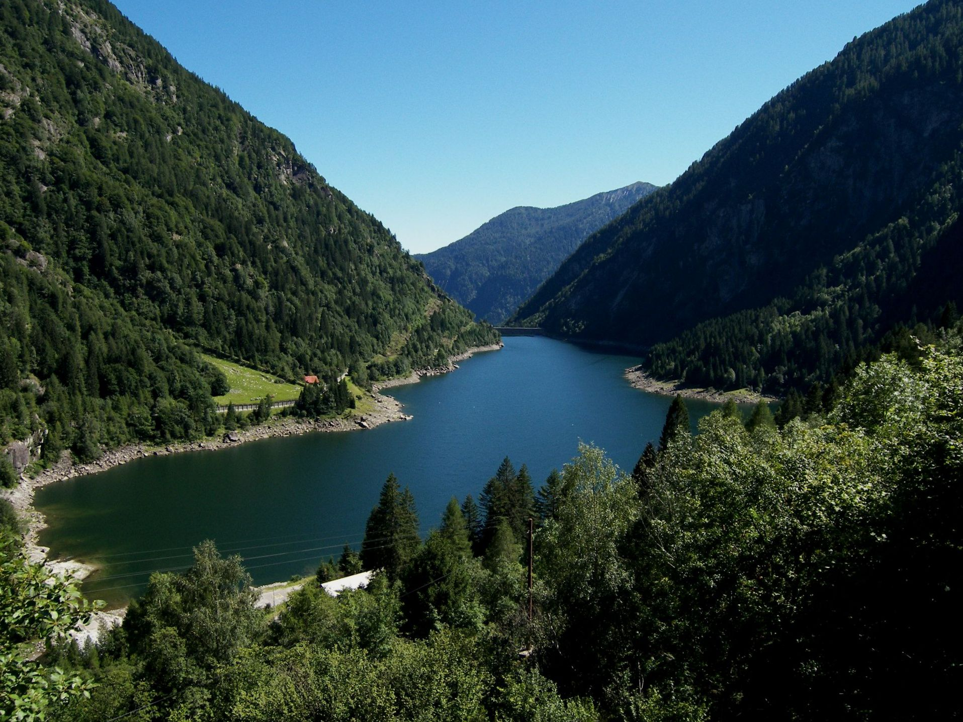 Lago di Malga Boazzo, Val di Daone, Trentino, Italy